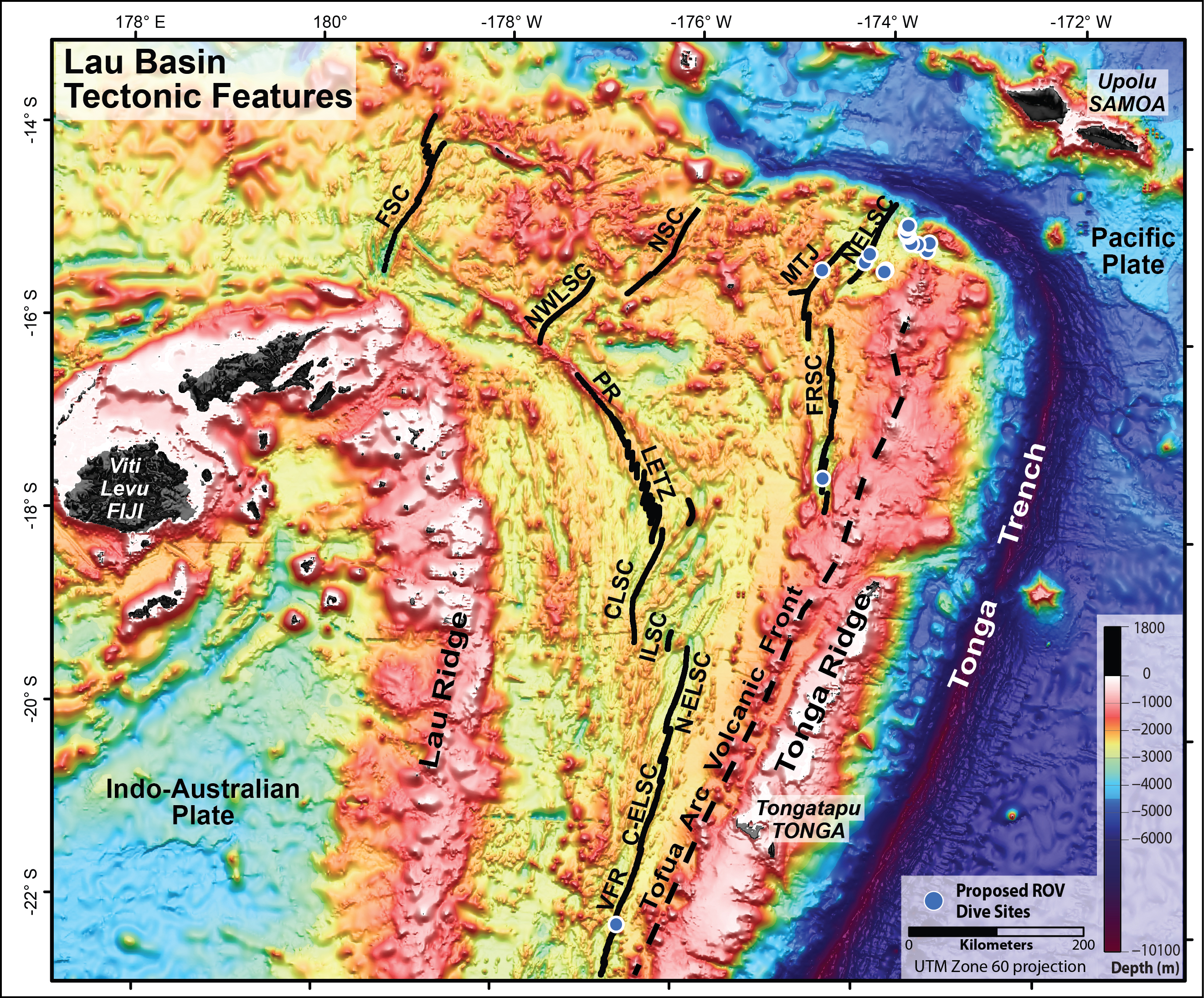 Tectonic map of the Lau Basin. Tectonic features of the Lau Basin overlaid on satellite altimetry data, modified from Martinez and Taylor Geophysical Monograph 166, 2006. The Spreading centers and ridges are shown with black solid lines: Valu Fa Ridge (VFR), Central Eastern Lau Spreading Center (C-ELSC), Intermediate Lau Spreading Center (ILSC), Central Lau Spreading Center (CLSC), Lau Extensional Transform Zone (LETZ), Peggy Ridge (PR), North-West Lau Spreading Center (NWLSC), Niuafo’ou Spreading Center (NSC), Futuna Spreading Center (FSC), Mangatolu Triple Junction (MTJ), Fonualei Rift and Spreading Center (FRSC), North-East Lau Spreading Center (NELSC). Tonga trench, ridges and tectonic plates are also noted. Image courtesy of NOAA Vents Program.